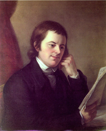 Portrait of Thomas Johnson (governor) by Charles Willson Peale in the Maryland State Archives, on display at Government House, Annapolis. The portrait was engraved by Joseph Ives Pease and published in c. 1840.[1] A copy of this portrait has been created and given to the City of Philadelphia for public display (hence published) in 1874.[2] Johnson's visage in Peale's portrait was copied from the Johnson's family portrait (also painted by Peale). The family painting has been published in several works, such as p. 488 of The Century Illustrated Monthly Magazine[3] and p. 306 of Side-lights on Maryland History.[4]